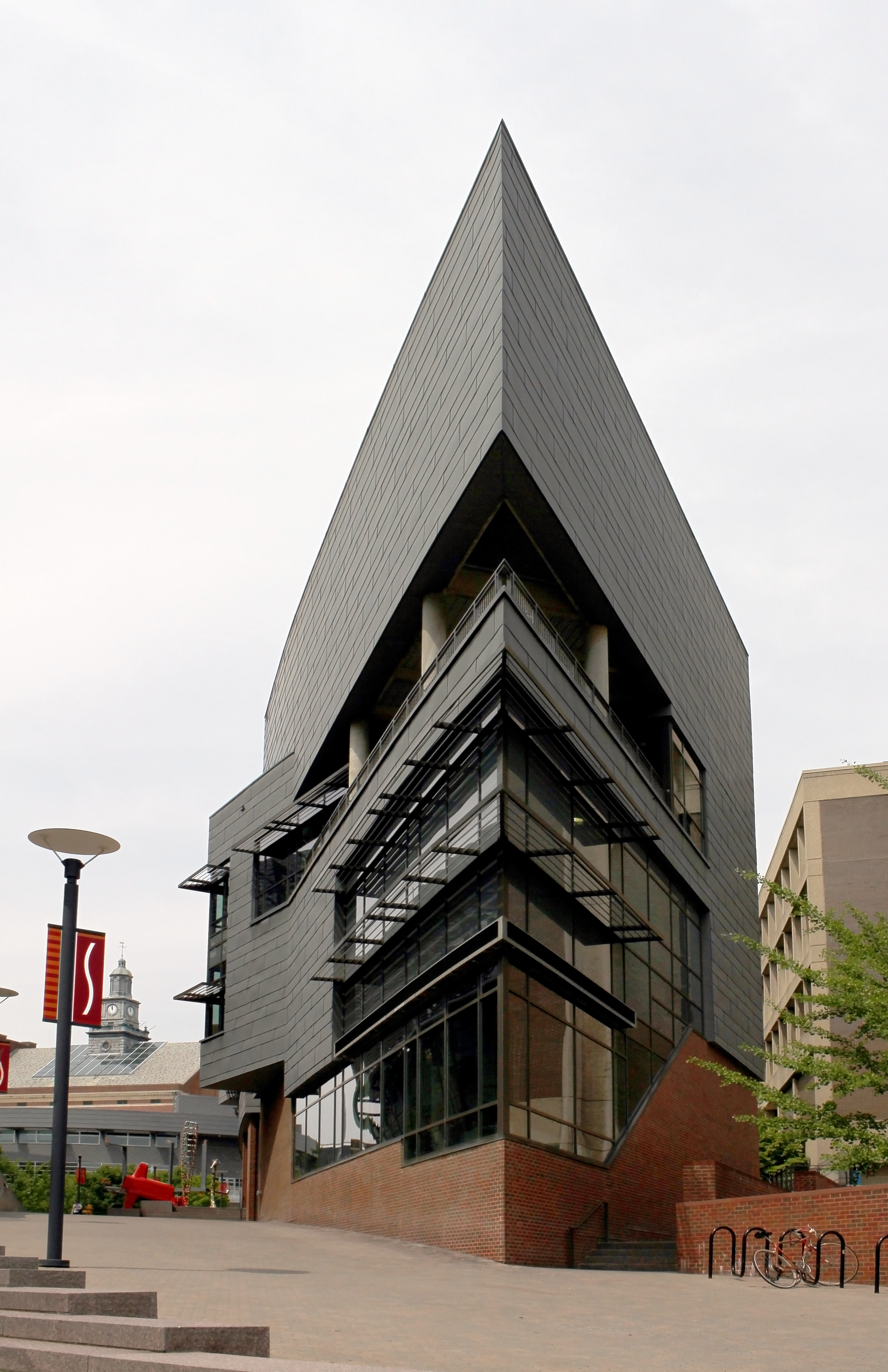 Joseph A. Steger Student Life Center on the University of Cincinnati campus.